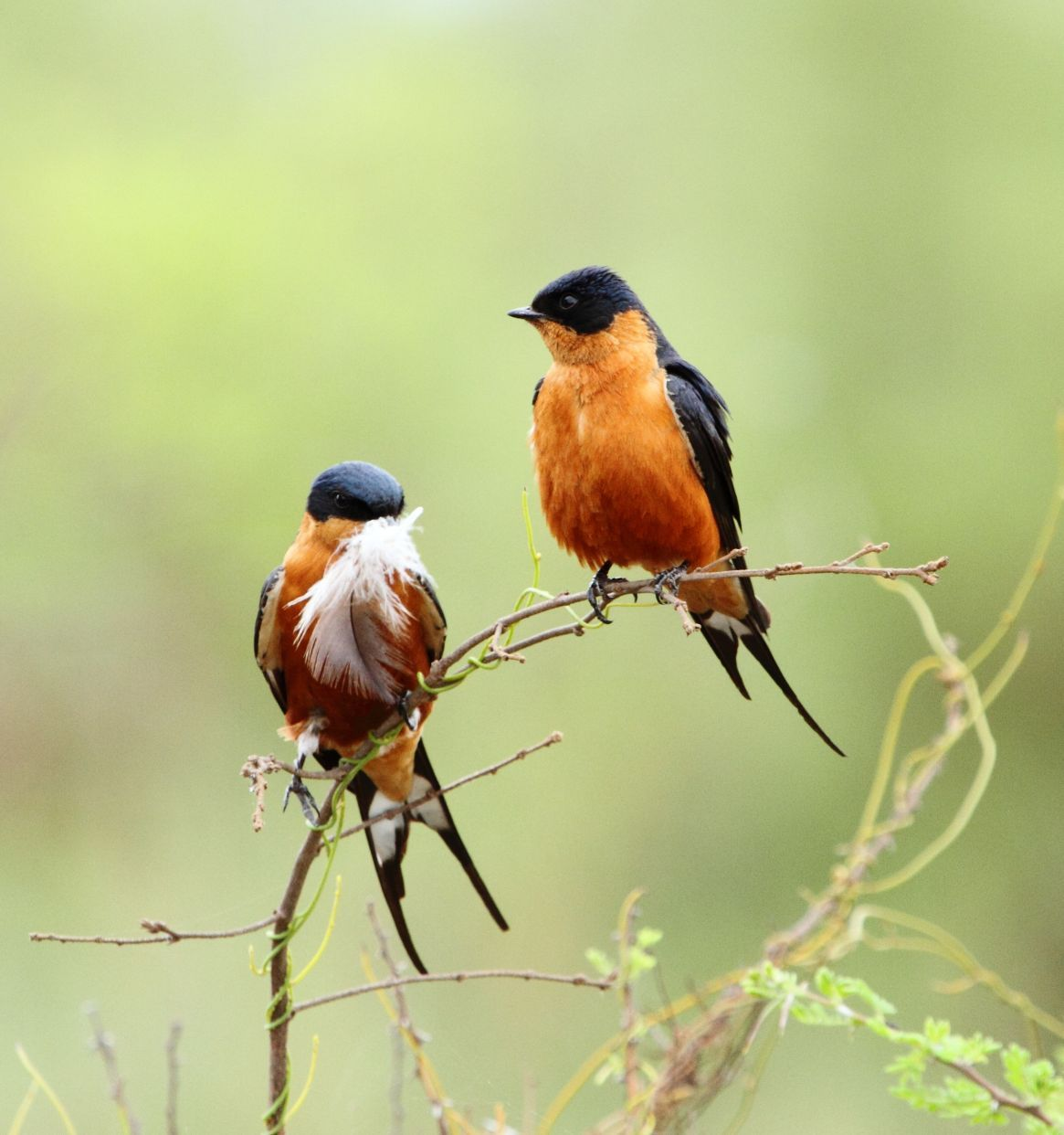 A pair of Red-breasted Swallow Cecropis semirufa near their nest in a culvert under a road in Kruger National Park, South Africa.